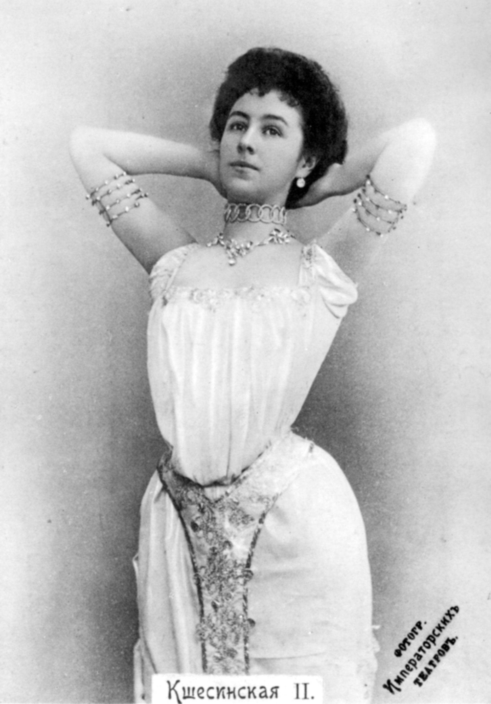 Photographic postcard of Mathilde Felixovna Kschessinskaya (1872-1971), Soloist to His Imperial Majesty and Prima ballerina of the St. Petersburg Imperial Theatres. She is costumed as Princess Aspicia in the final scene from the 1862 ballet The Pharaoh's Daughter, created by the choreographer Marius Petipa (1811-1910) and the composer Cesare Pugni (1803-1870).